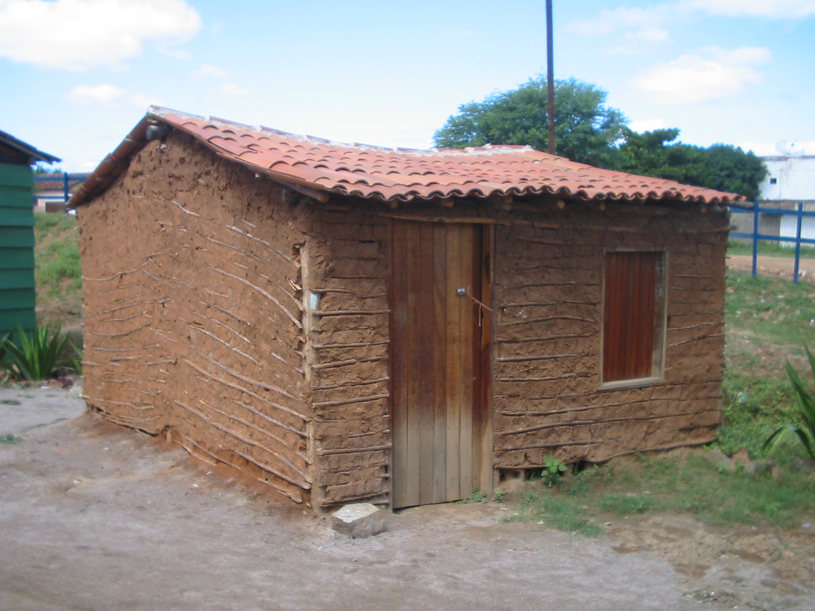 Serra Talhada (Pernambuco), Brazil. House of taipa.